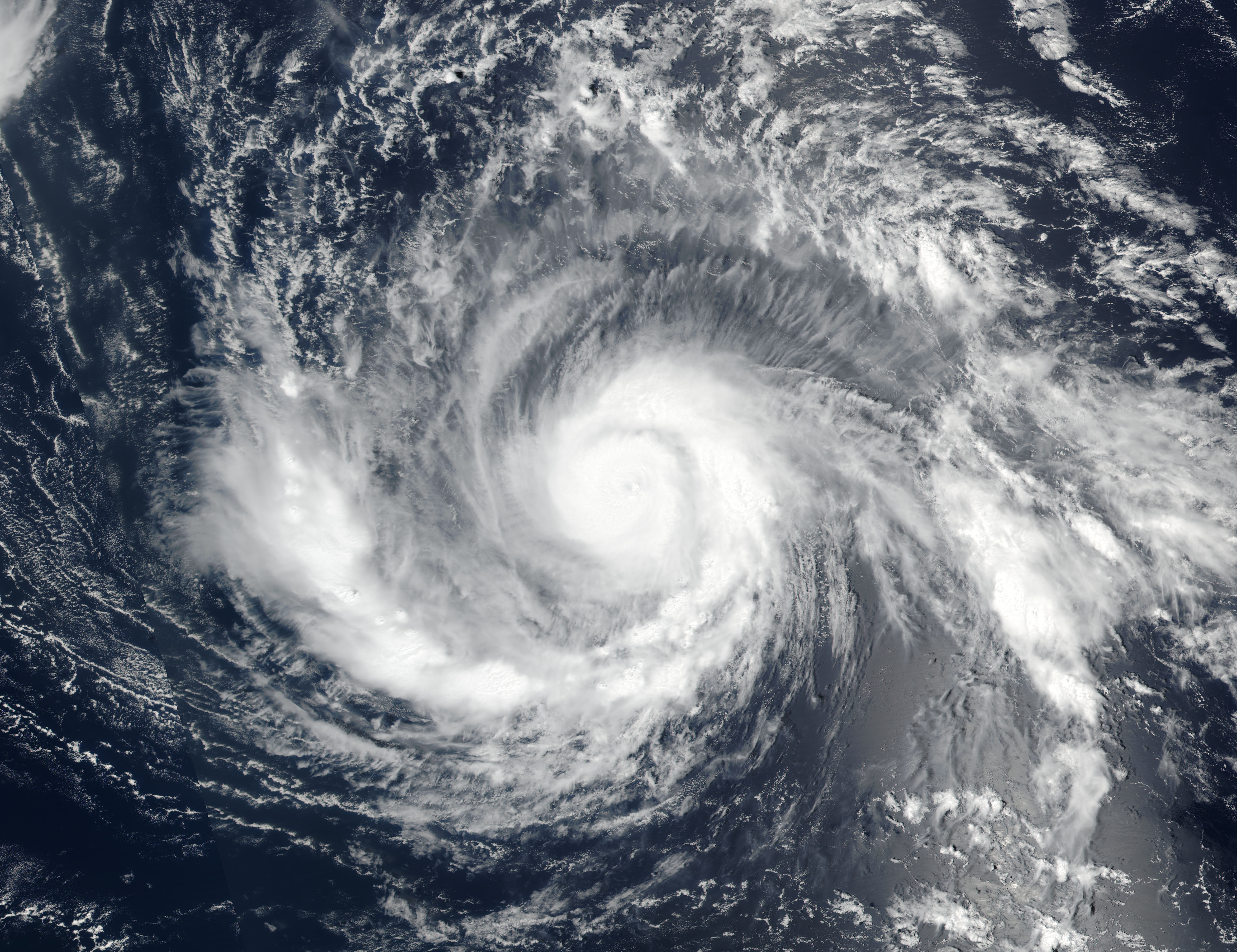 Suomi NPP/VIIRS satellite view of Hurricane Irma on 03 September 2017. Resolution: 1px=1km